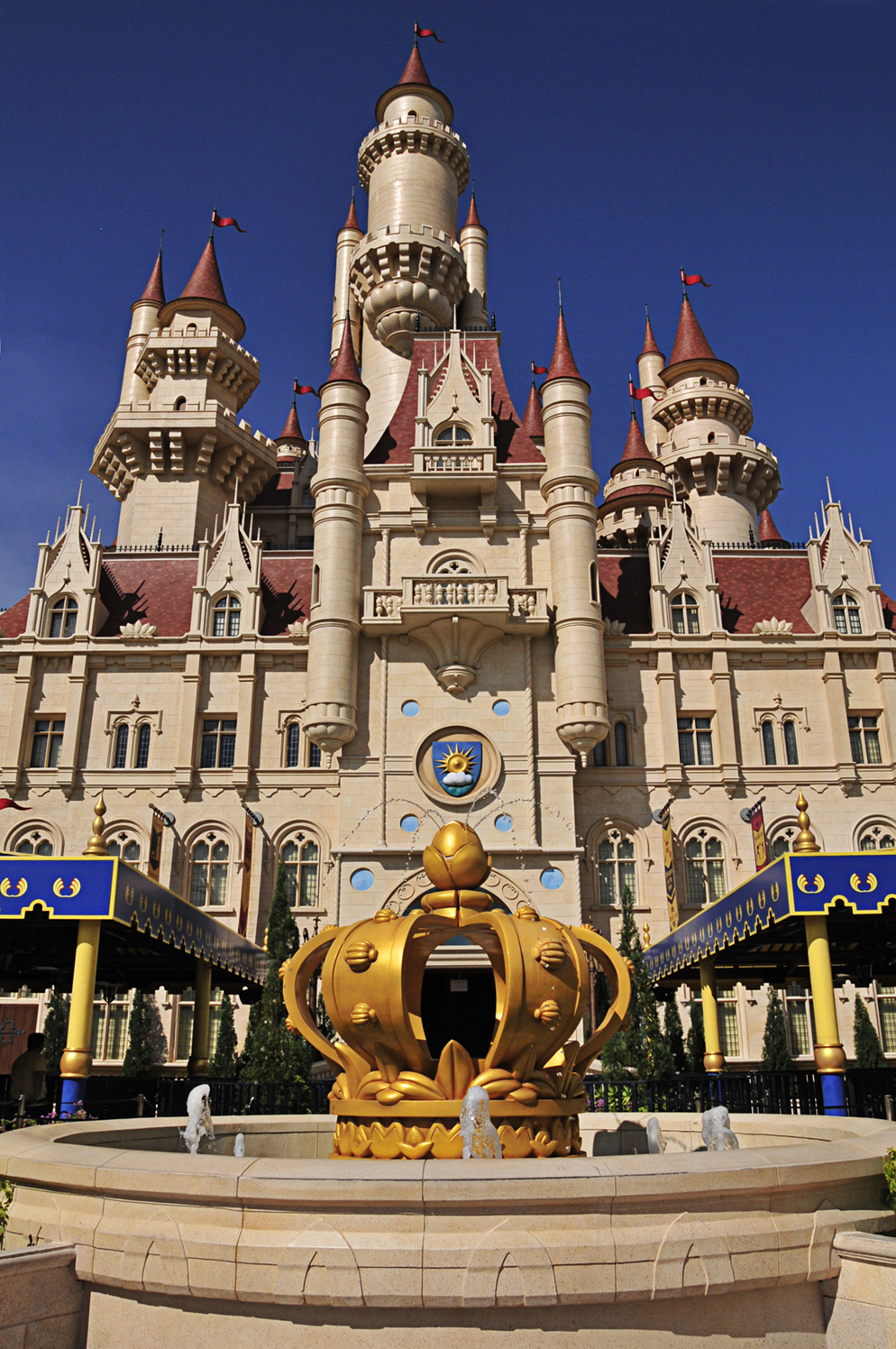 Far Far Away – Universal Studios Singapore